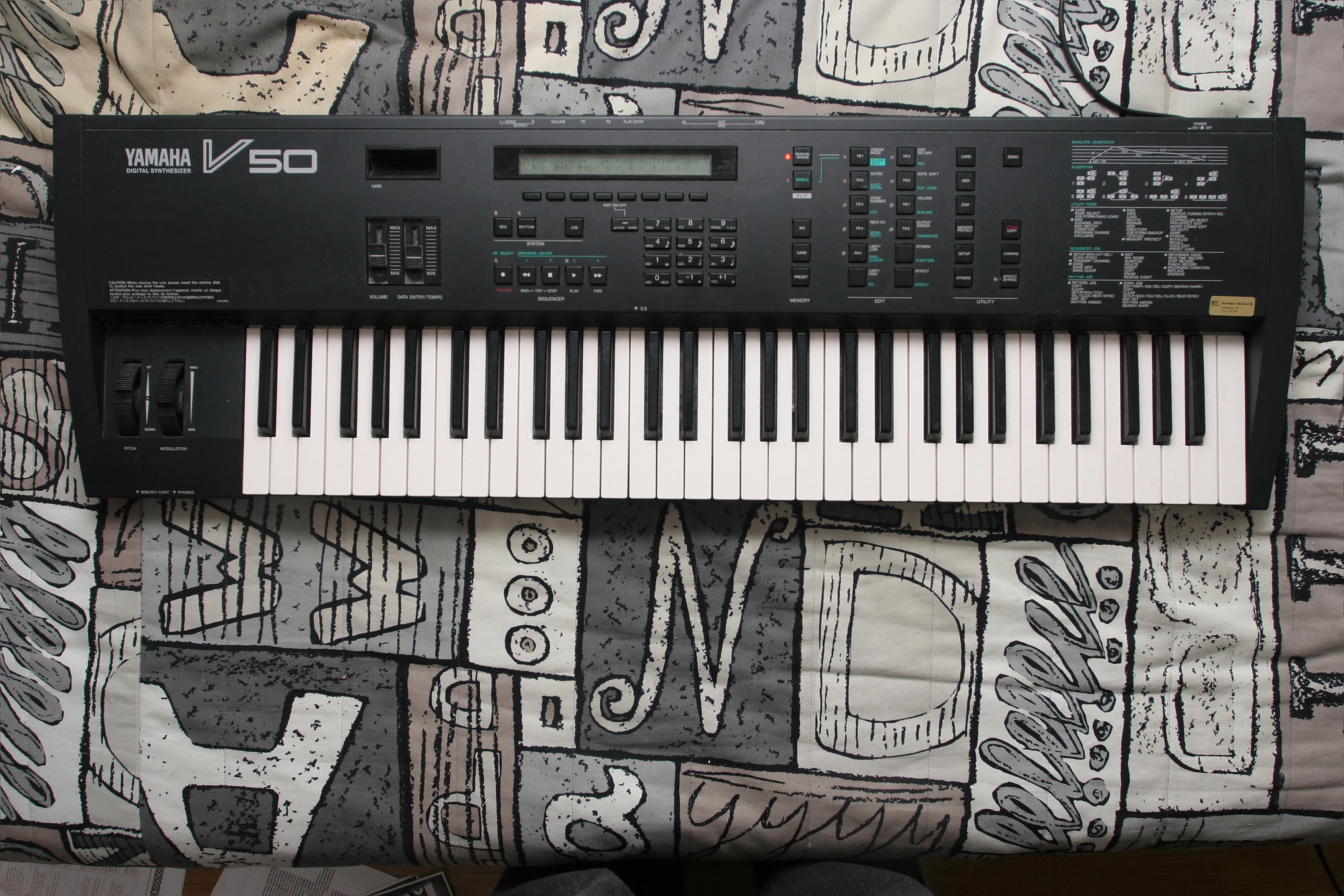 Yamaha V50 music workstation.